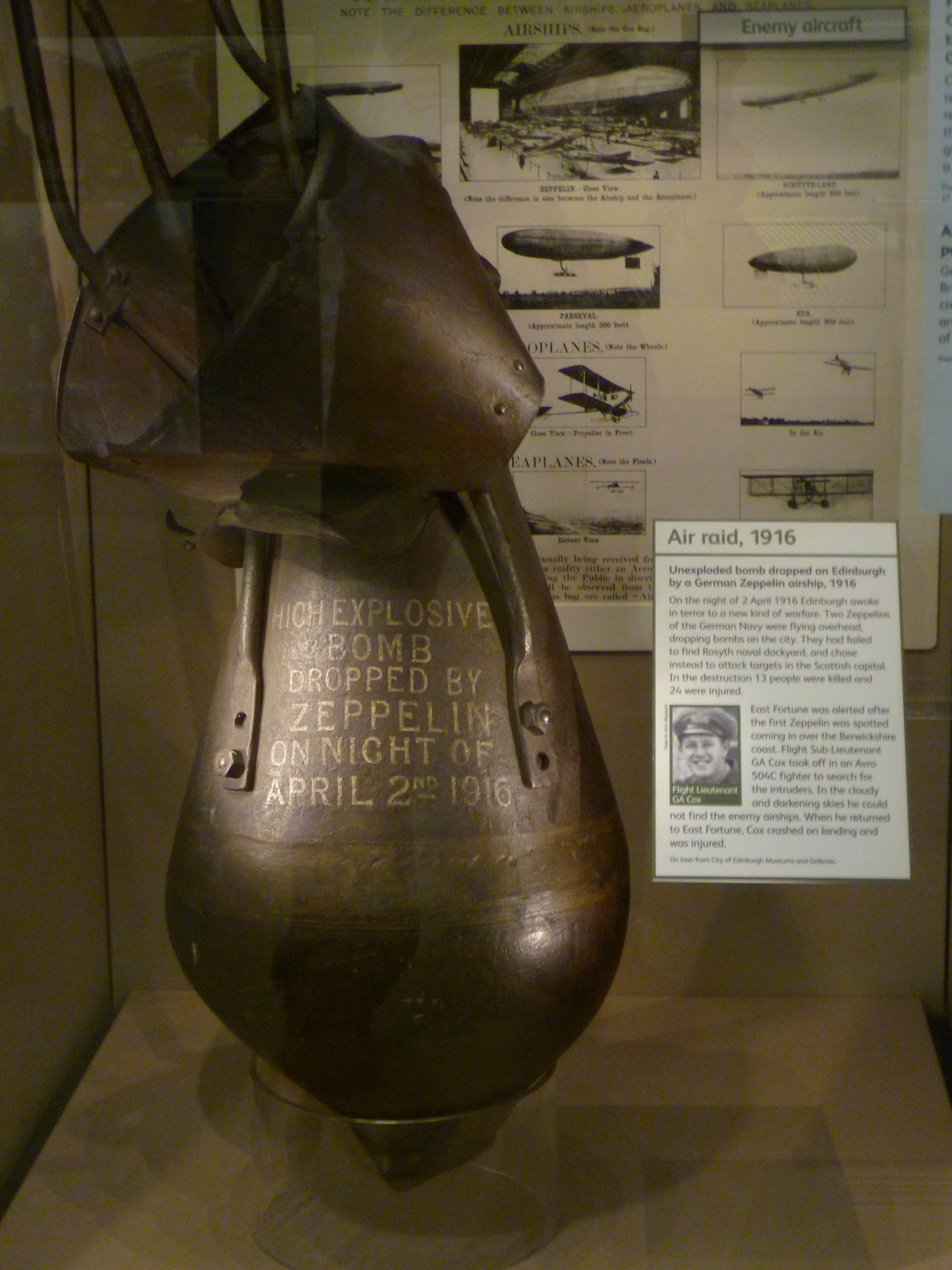 On the night of 2nd-3rd April 1916, two German Navy Zeppelins, failing to find their intended target, Rosyth Dockyard, dropped 27 bombs on Leith and Edinburgh instead. This one failed to explode. East Fortune airfield was alerted when the first Zeppelin was spotted coming in over the Berwickshire coast and sent up one aeroplane to intercept. Owing to poor visibility, it failed to locate the intruders and crash landed on return.